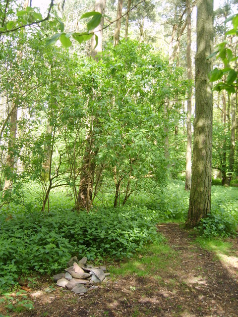 Dunmallard Hill Summit Pleasantly wooded hill at Pooley Bridge